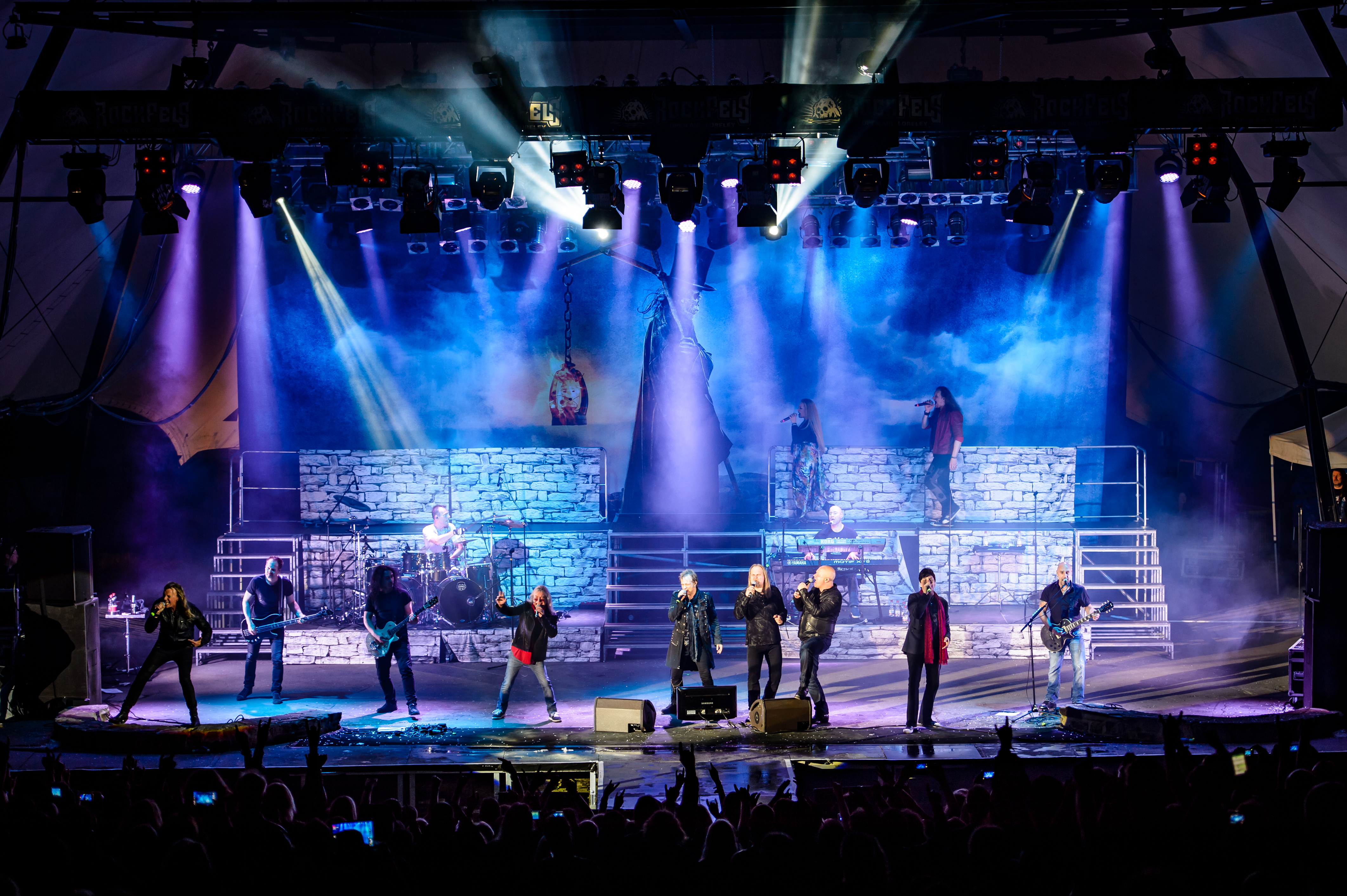 Avantasia; RockFels 2016 - Loreley